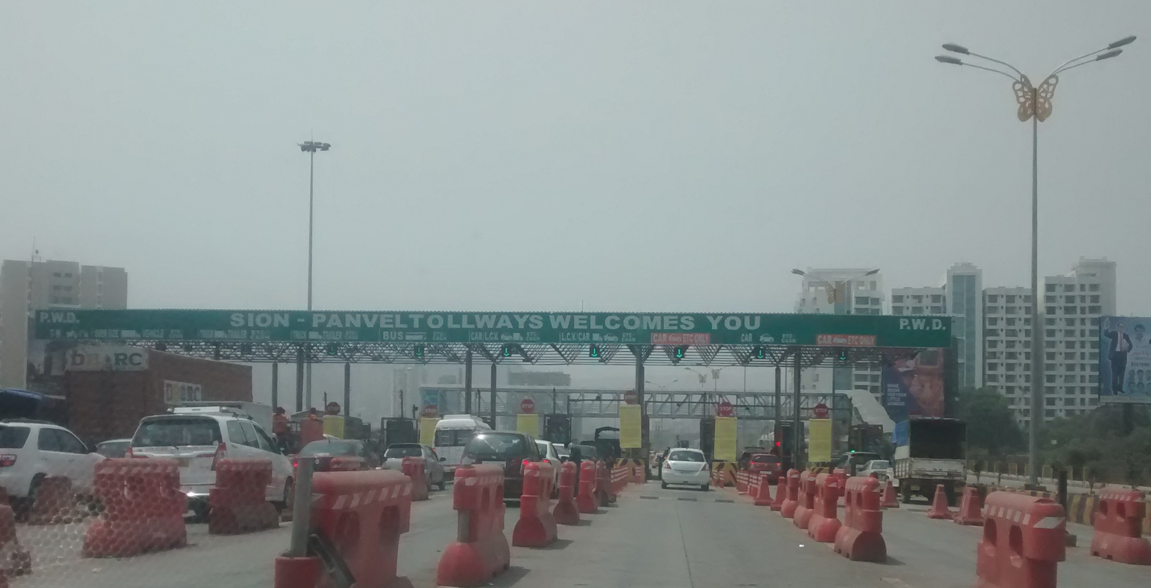 Northern Toll Plaza, Sion Panvel Highway